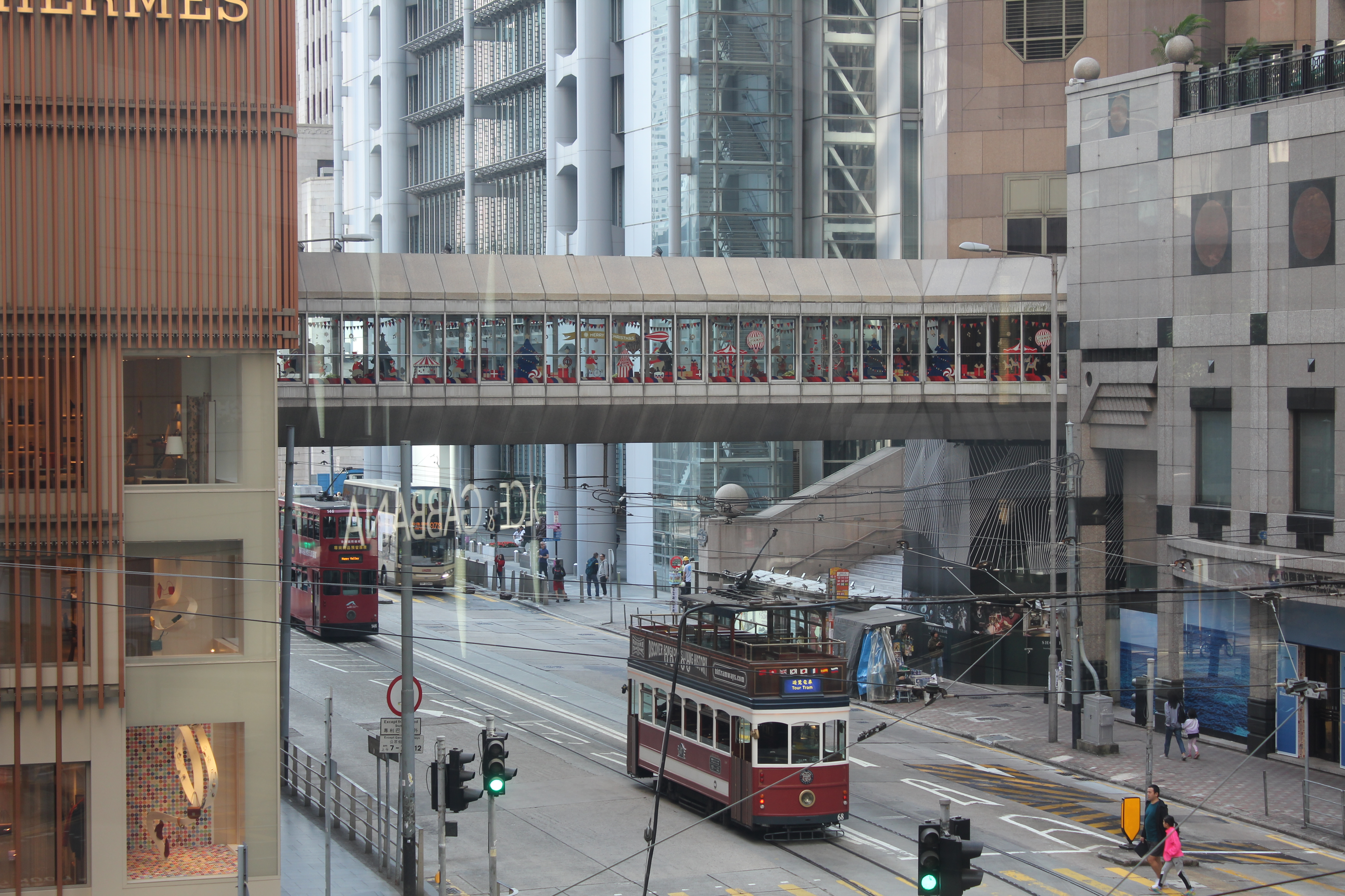 Photo taken on the footbridge between Alexandra House and the Landmark